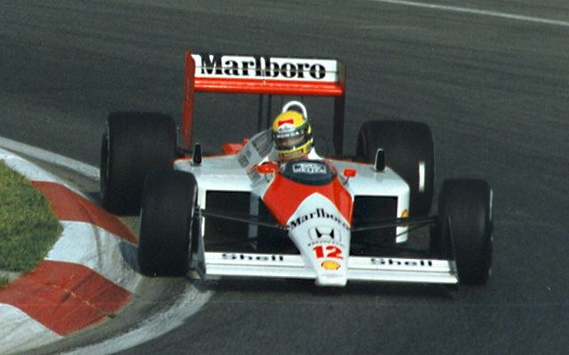 Ayrton Senna driving for McLaren at the 1988 Canadian Grand Prix.